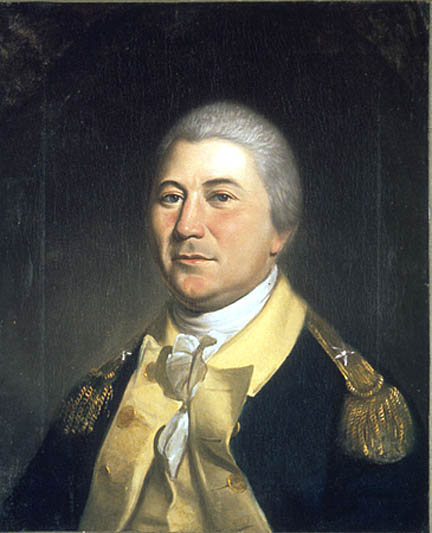 James Mitchell Varnum (1748–1789), American general